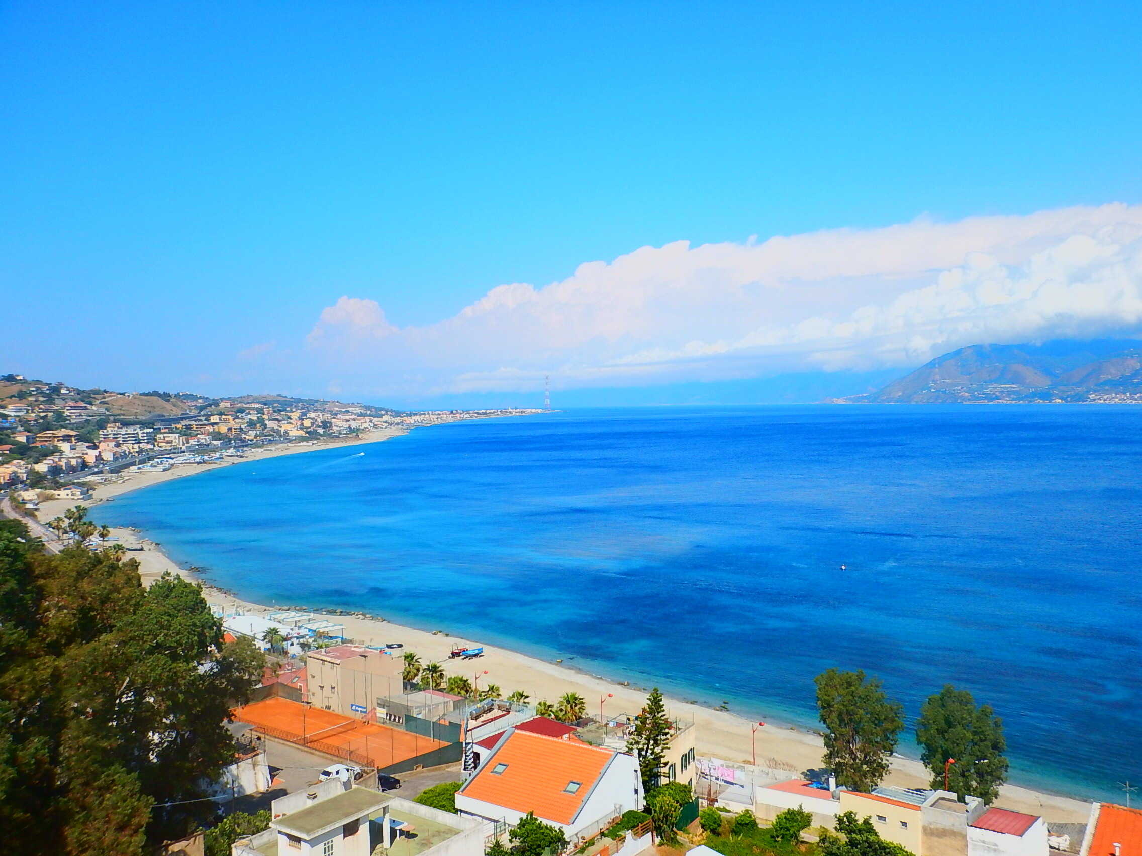 landscape of the Strait of Messina